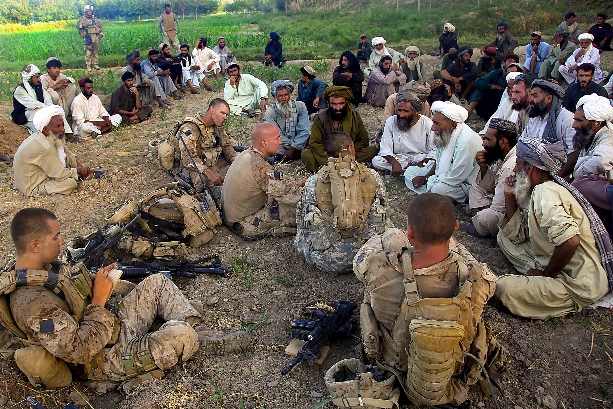 Captain Andrew Schoenmaker, with Bravo Company, 1st Battalion, 5th Marine Regiment, talks with leaders at a meeting in the Nawa District, Helmand Province, Afghanistan, July 15, 2009. Also shown is Sergeant William Cahir from 4th Civil Affairs Group, who was killed August 13, 2009 in a firefight. 1st Battalion, 5th Marine Regiment, 2nd Marine Expeditionary Brigade - Afghanistan, are deployed in support of NATO's International Security Assistance Force.